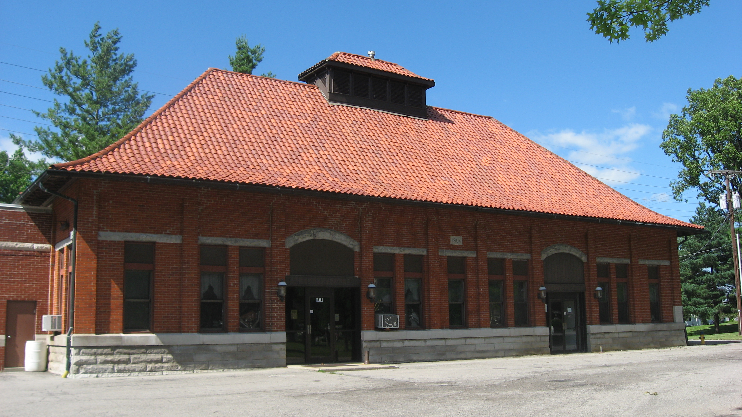 Front of the original part of the Ottawa Waterworks Building, located at 1035 E. Third Street in Ottawa, Ohio, United States. Built in 1904, it is listed on the National Register of Historic Places.